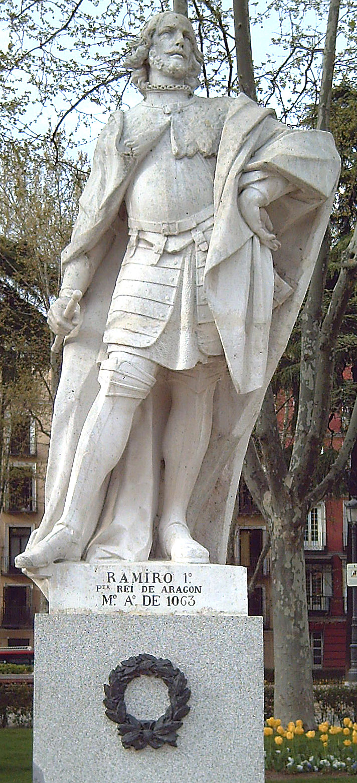 Statue of Ramiro I of Aragon (c.1000–1063) at the Plaza de Oriente (square) in Madrid (Spain). Sculpted in white stone by Luis Salvador Carmona (1709–1767) between 1750 and 1753.